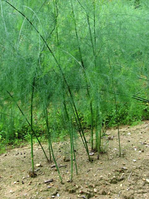 Asparagus plants The probably best known member of the family of Asparagacea is the edible variety called Asparagus officinalis, commonly referred to as asparagus. The word asparagus derives from Latin, and the plant was once known in English as sperage, a term that originates from the Greek aspharagos or asparagos, which in turn is derived from the Persian word asparag, meaning "sprout" or "shoot." Asparagus has been used from very early times as a vegetable as well as a medicinal plant. For more information see Asparagus